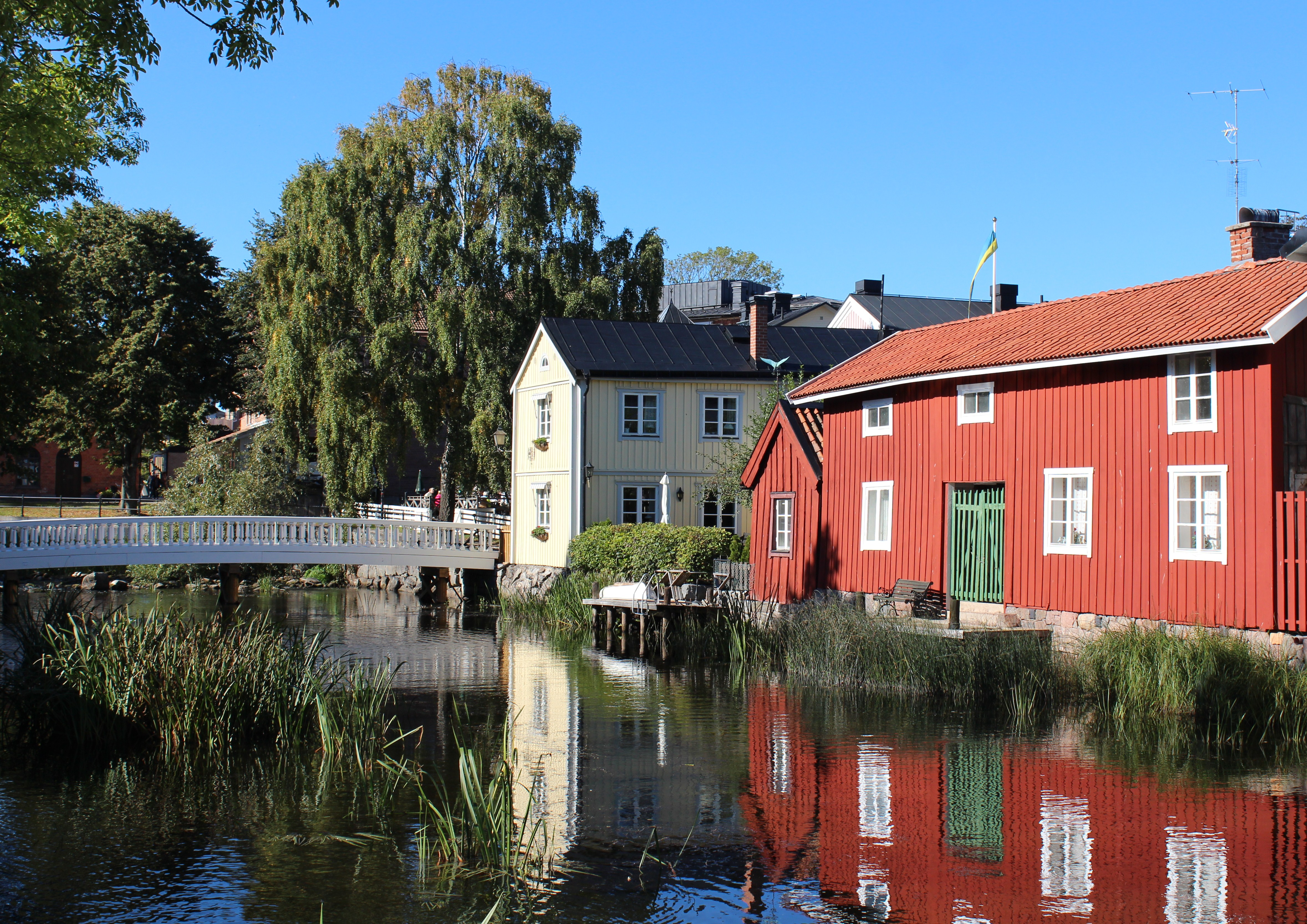 Ripe autumn berries